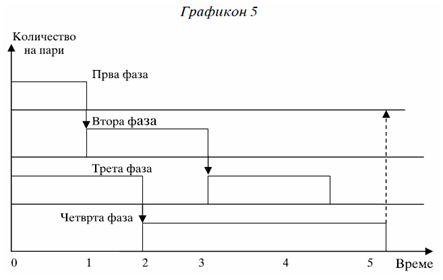 Неперфектно спојување на плаќањата во одделните фази